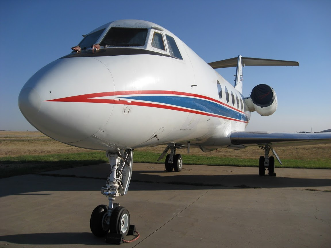 Photo of Texas Air & Space Museum's NASA Shuttle Training Aircraft (STA).